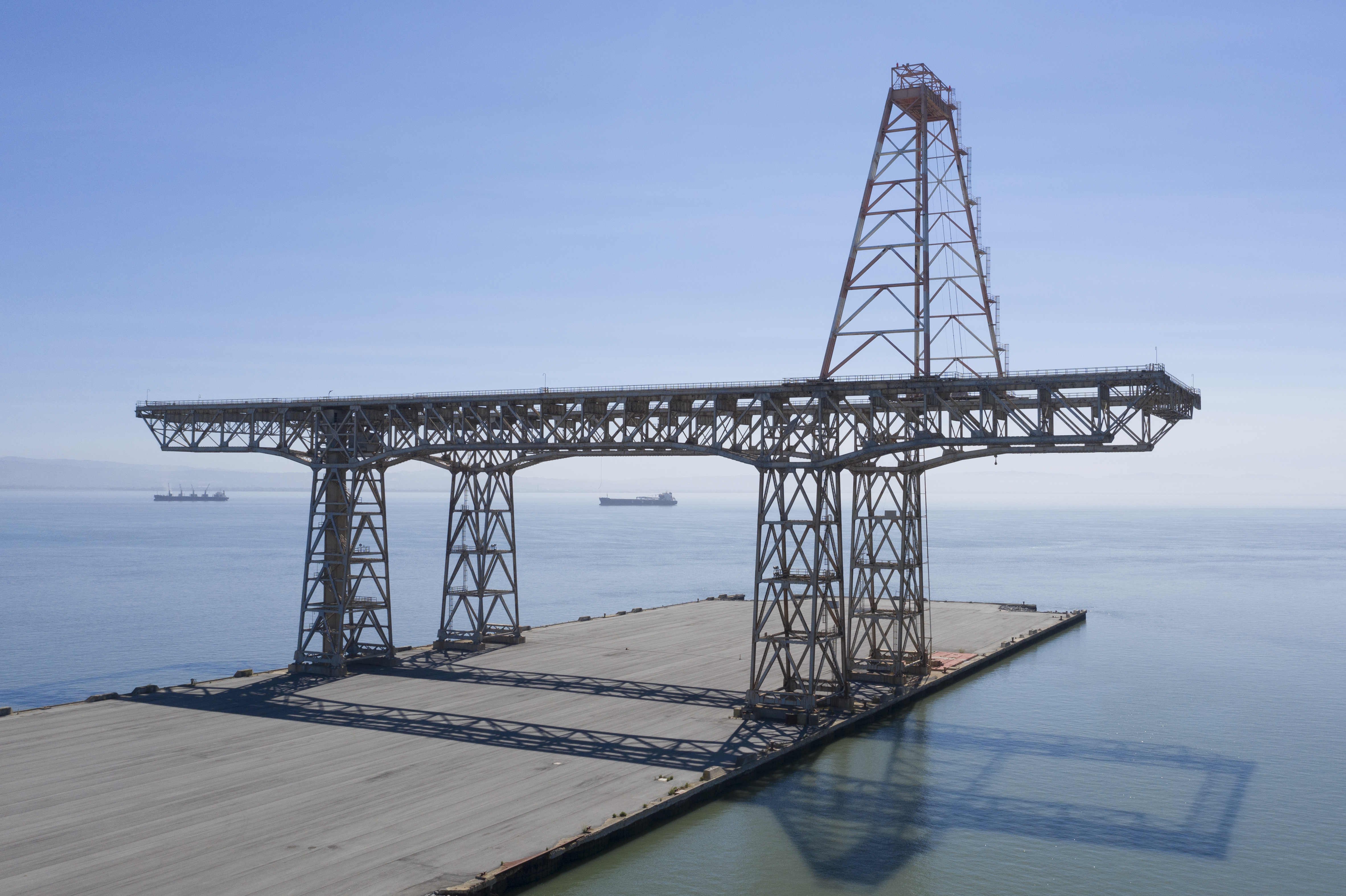 Hunters Point Naval Shipyard by Christopher Michel